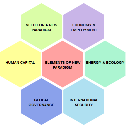 Taken from the WAAS website.